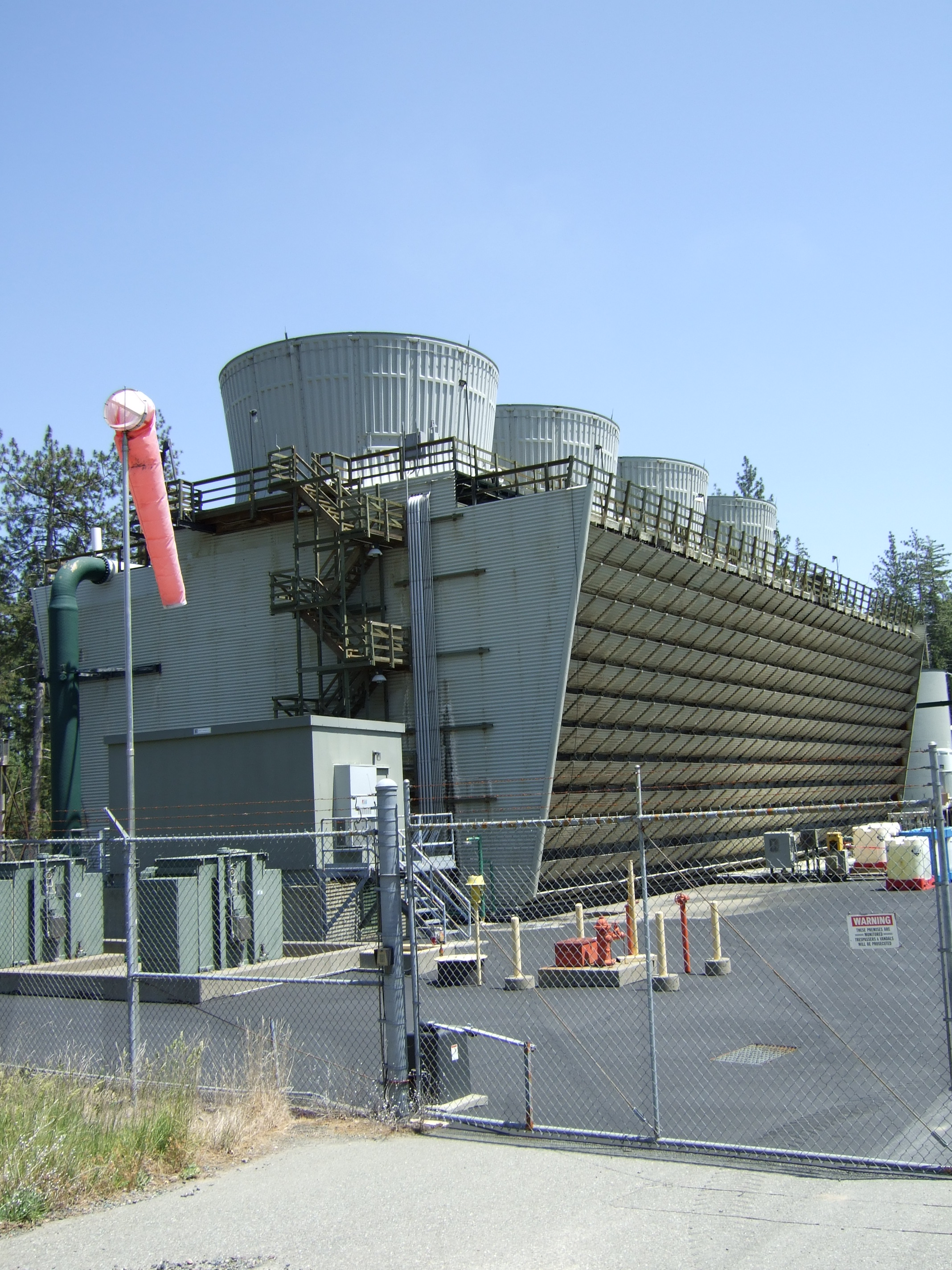 The cooling tower for the West Ford Flat power plant, which is part of The Geysers, the world's largest geothermal power development.